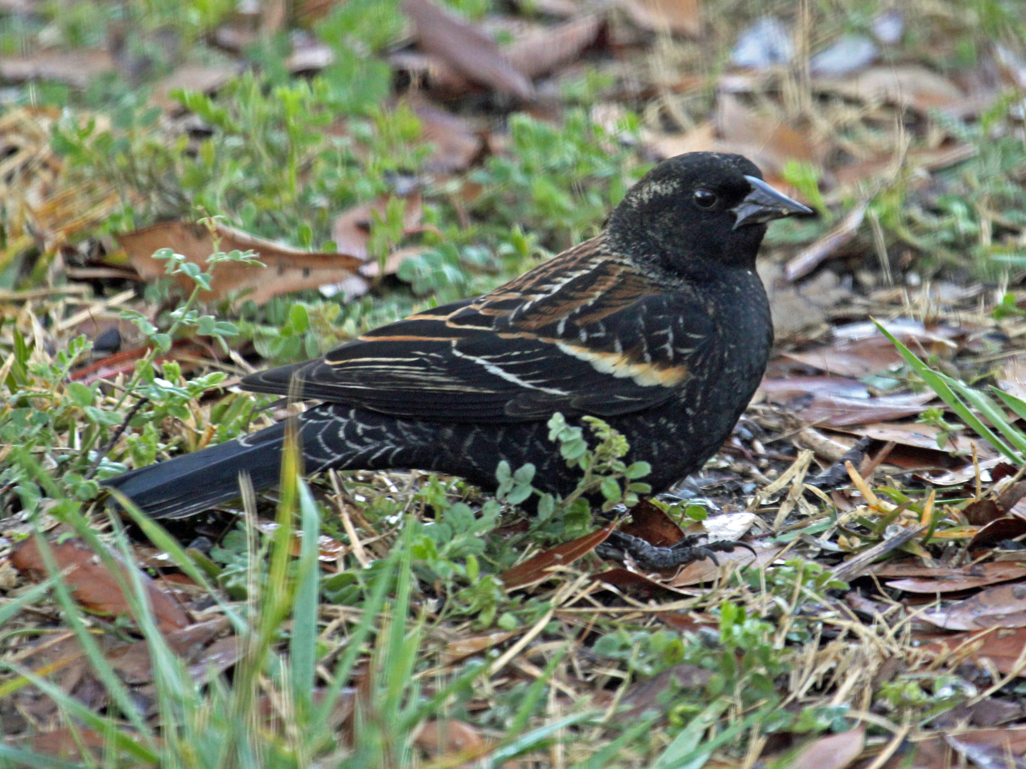 Juvenile male Red-winged Blackbird (Agelaius phoeniceus) - Ash, North Carolina